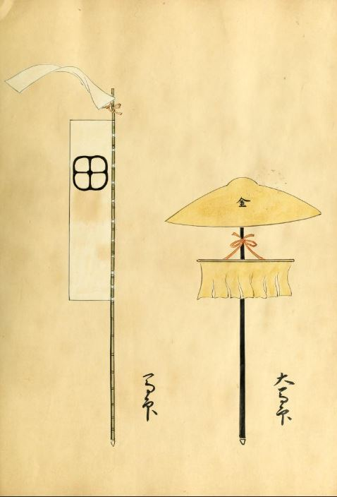 R: gold hat above gold noren curtain, L: four-petal crest on white with white pendant